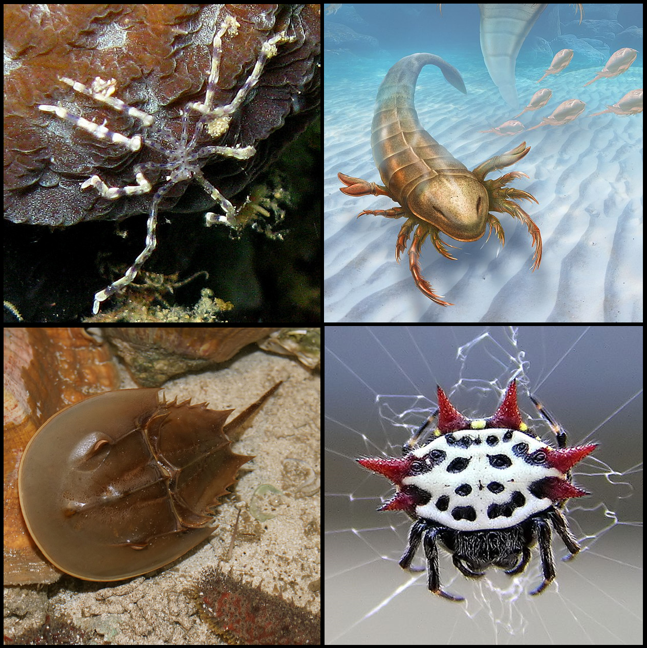 Collage of chelicerates, including a pycnogonid, an eurypterid, a xiphosuran and an arachnid.